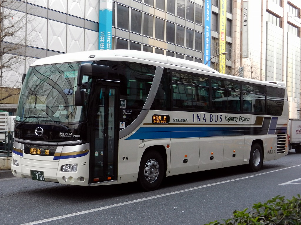 Ina bus Hino S'elega (PKG-RU1ESAA) for highwaybus